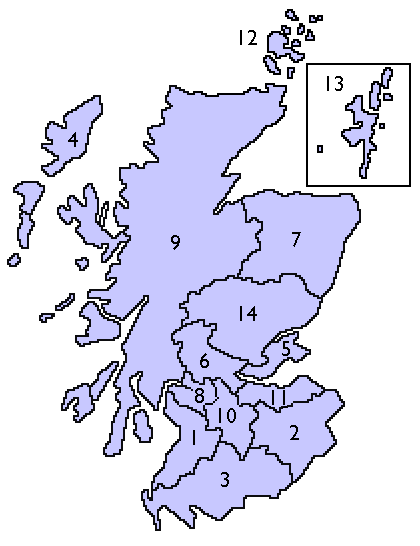 Map of Health Boards.